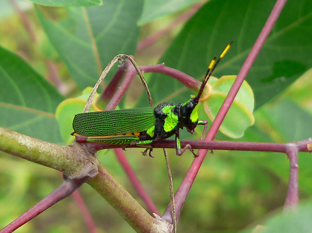 Female Taphronota ferruginea photographed by Christiaan Kooyman on 10 June 2005 near Awae, Cameroon.